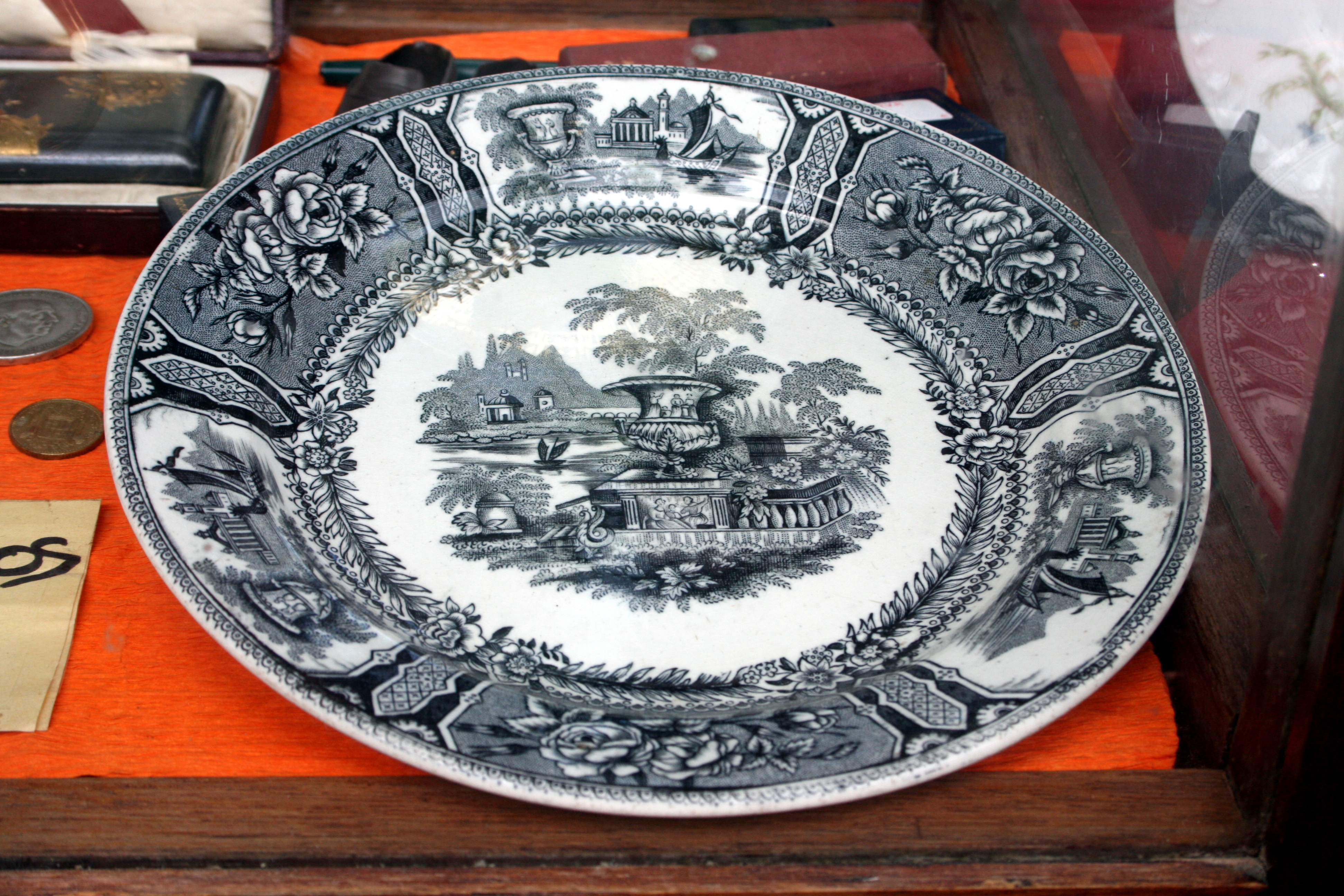 Black plate of Sargadelos, Third age (century XIX). This photograph was taken during an antiques fair in Cambados, Galicia, Spain.